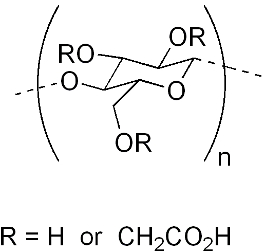 chemical structure of carboxymethyl cellulose